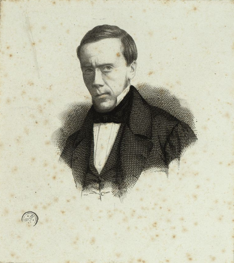 Alexandre Herculano (1810-1877)